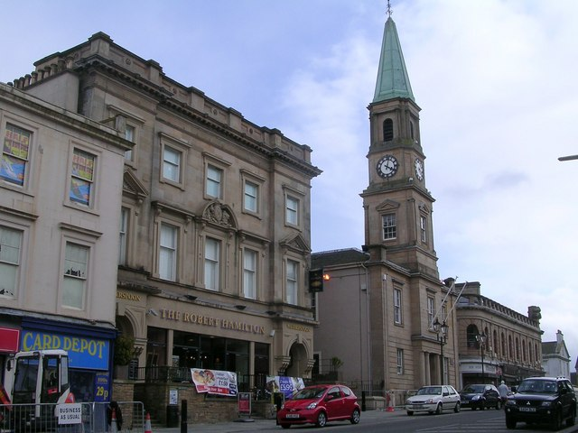 Bank Street in the Centre of Airdrie